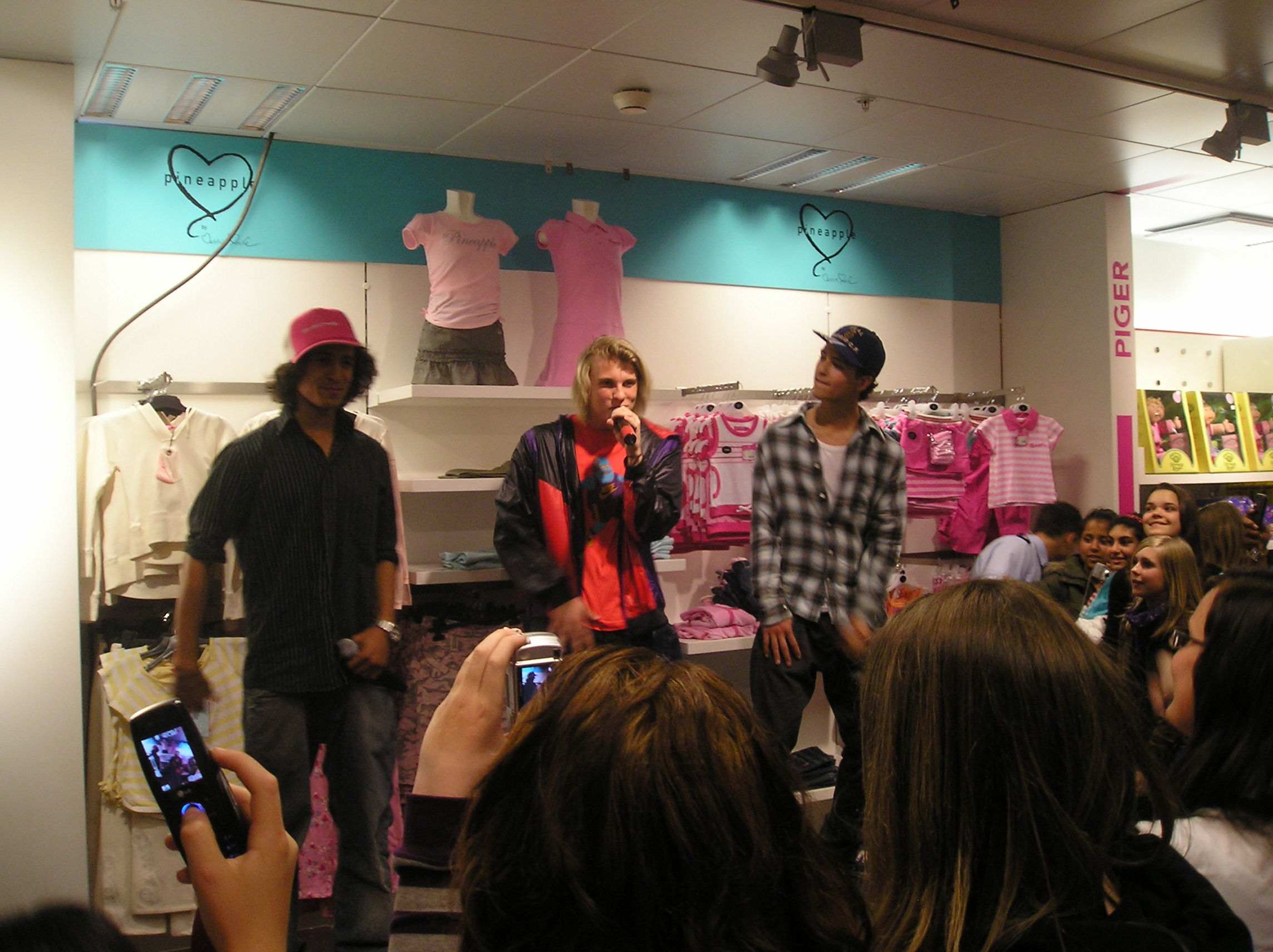 The danish music group B-Boys performing in Copenhagen department store Magasin.